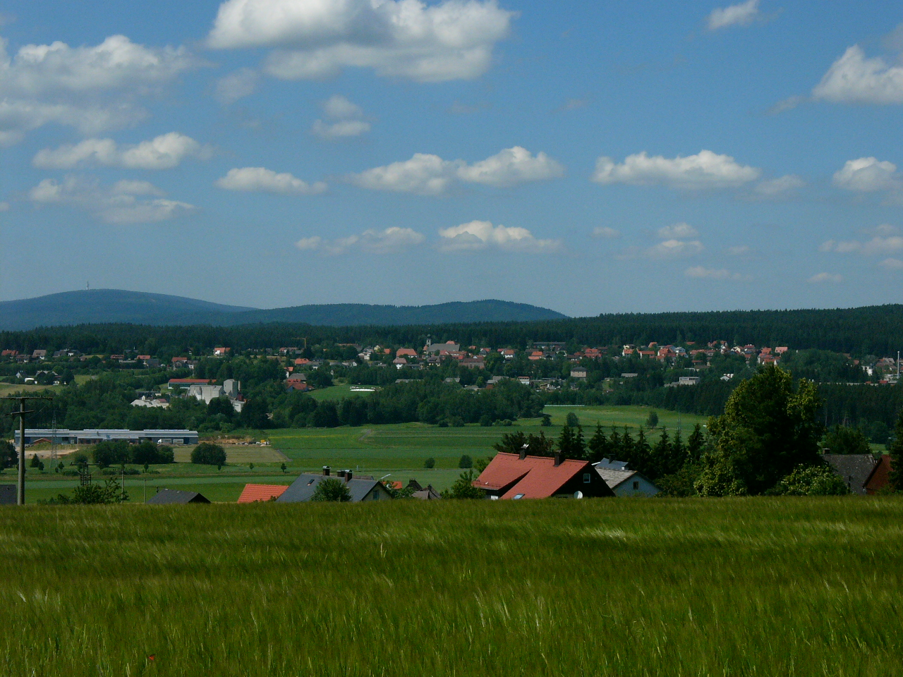 Looking from Lochau to Neusorg, Bavaria, with Lochau in the foreground